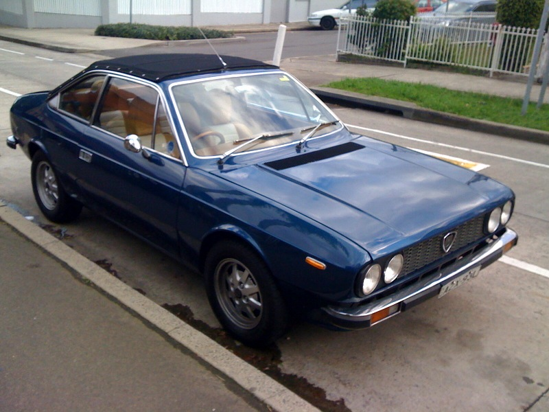 Lancia 2000.